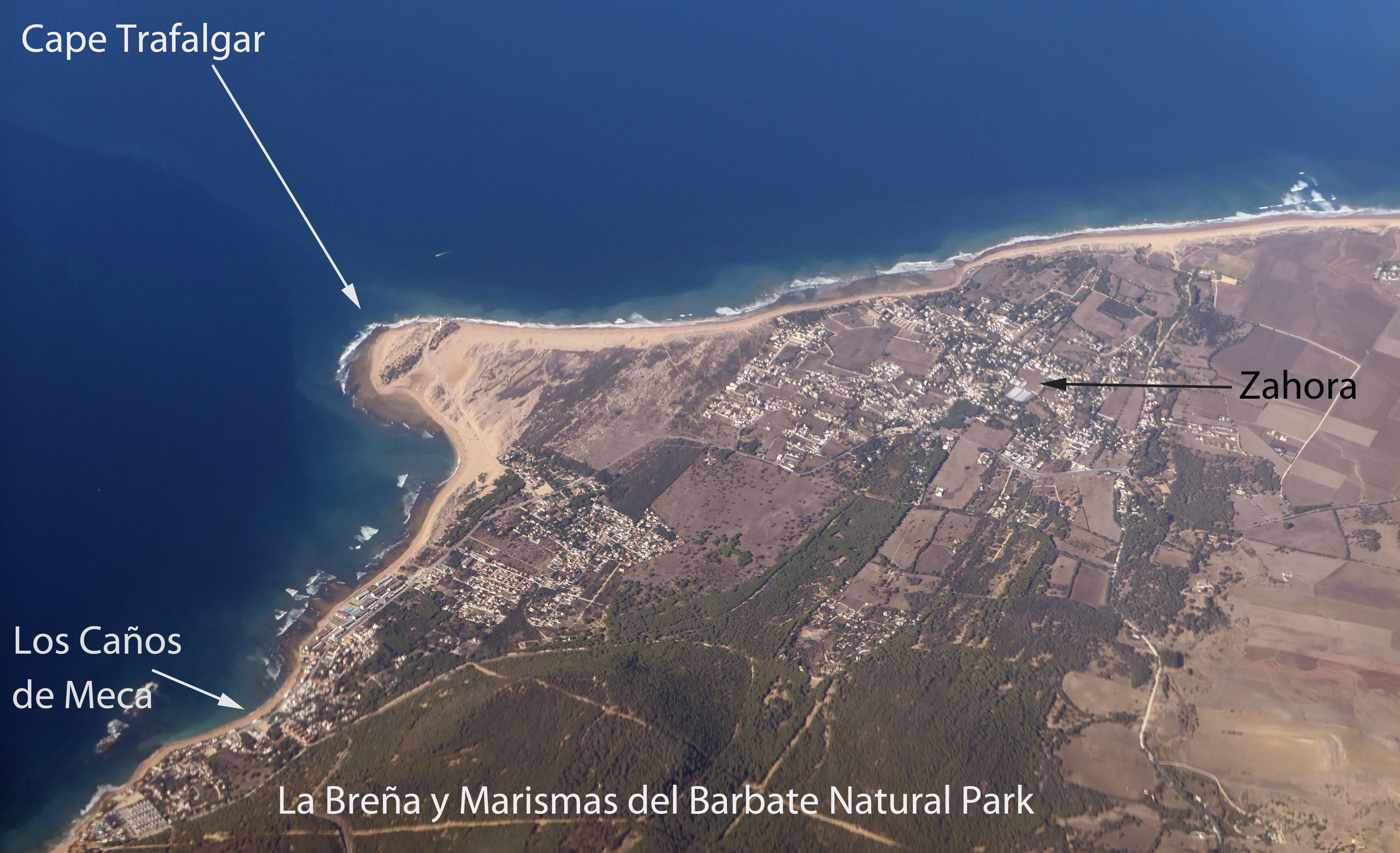 An aerial view of Cape Trafalgar in Andalusia, Spain. It includes the towns of Los Caños de Meca and Zahora, and part of La Breña y Marismas del Barbate Natural Park.